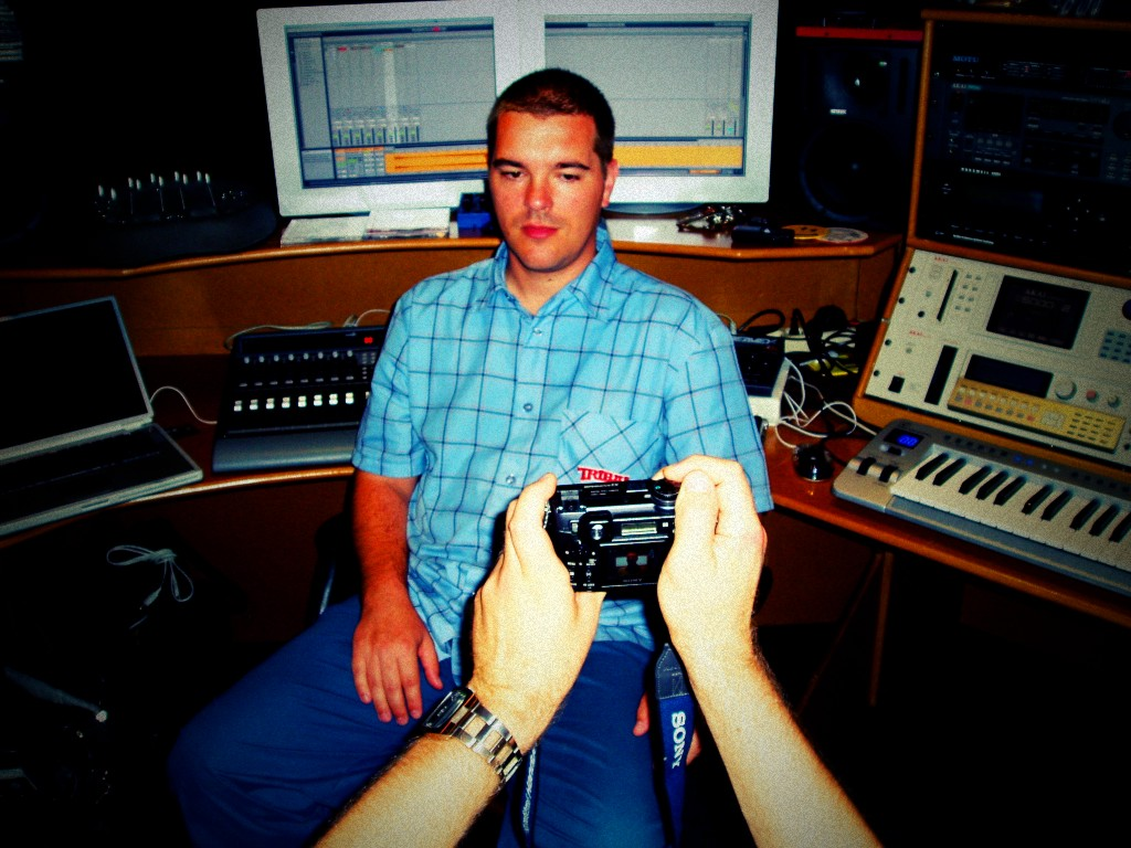 Johan Mulder and me, myself and I did an interview with Jochem Paap, Speedy J a couple of years ago. I learned some stuff about techno. Didn't have a clue what that meant. Still not sure. More here. (behandeld met de Instant Lomograpy)